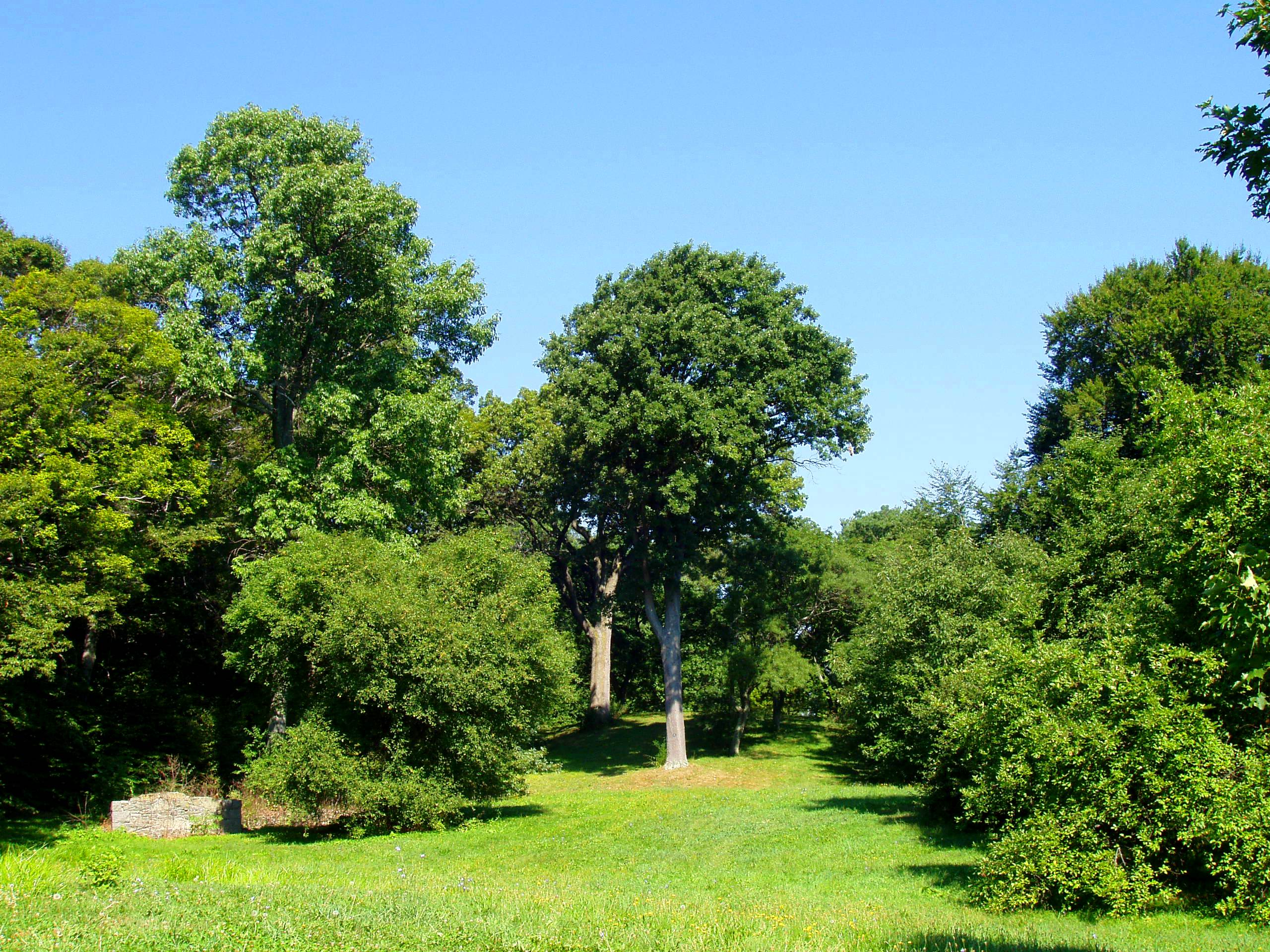 Arnold Arboretum, Jamaica Plain, Boston, Massachusetts. General view (a); photograph taken by me, August 2005.